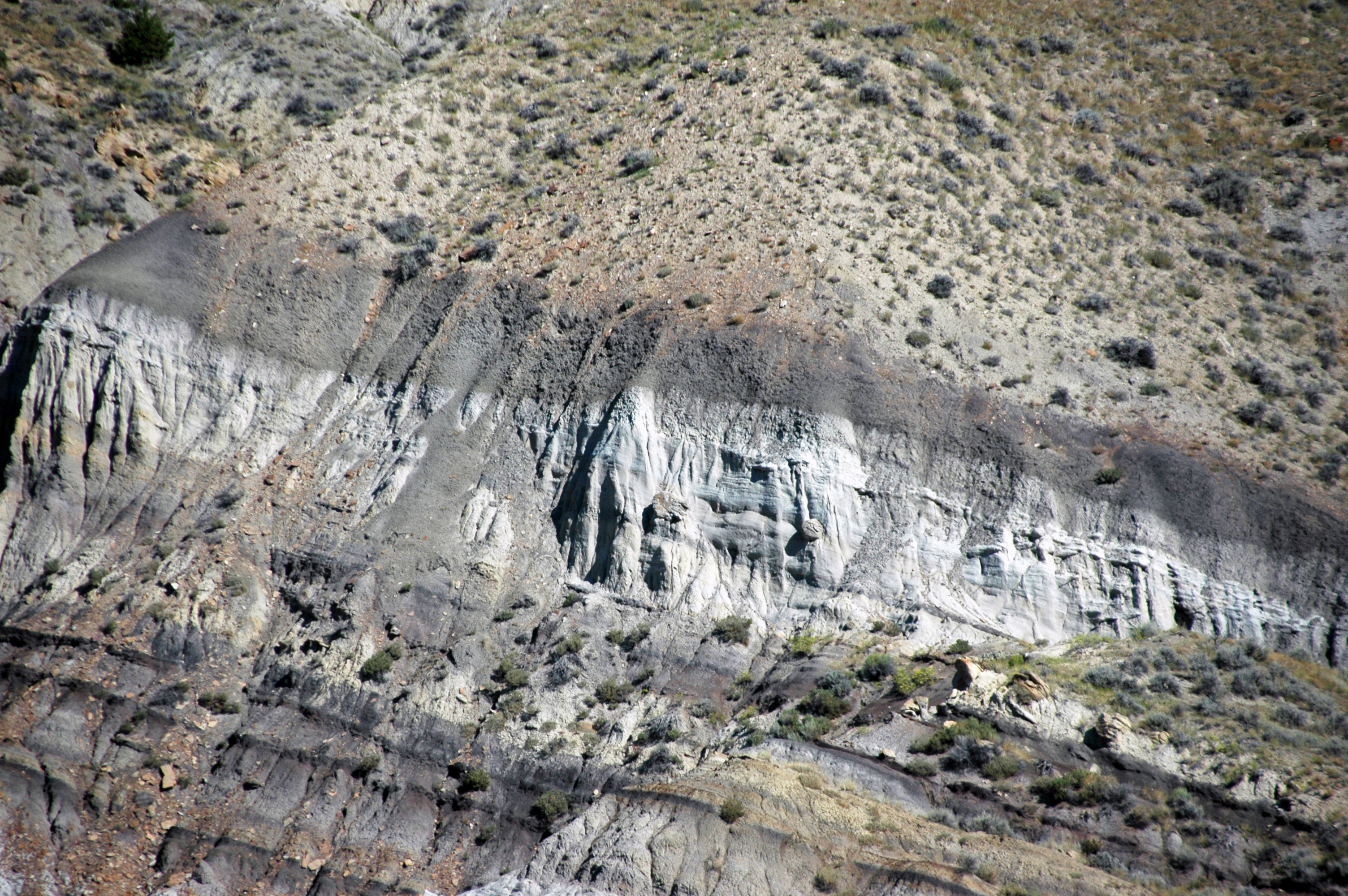 Wyoming's Meeteetse Formation is an Upper Cretaceous unit that consists of mixed siliciclastics and coal. It varies in thickness from a feather's edge (due to erosion) to almost 1,000 feet thick. In the deep subsurface, the Meeteetse reaches about 4,500 feet thick and can have up to 100 different coal horizons, some of which are 20 feet thick. Stratigraphy: Meeteetse Formation, Upper Cretaceous Locality: outcrop on the northeastern side of Route 120, southeast of the town of Meeteetse, southeastern Park County, northwestern Wyoming, USA Some info. from: Hickling et al. (1989) - Geology of the Upper Cretaceous and Tertiary coal-bearing rocks in the western part of the Wind River Basin, Wyoming. United States Geological Survey Bulletin 1813. 128 pp. 1 pl.